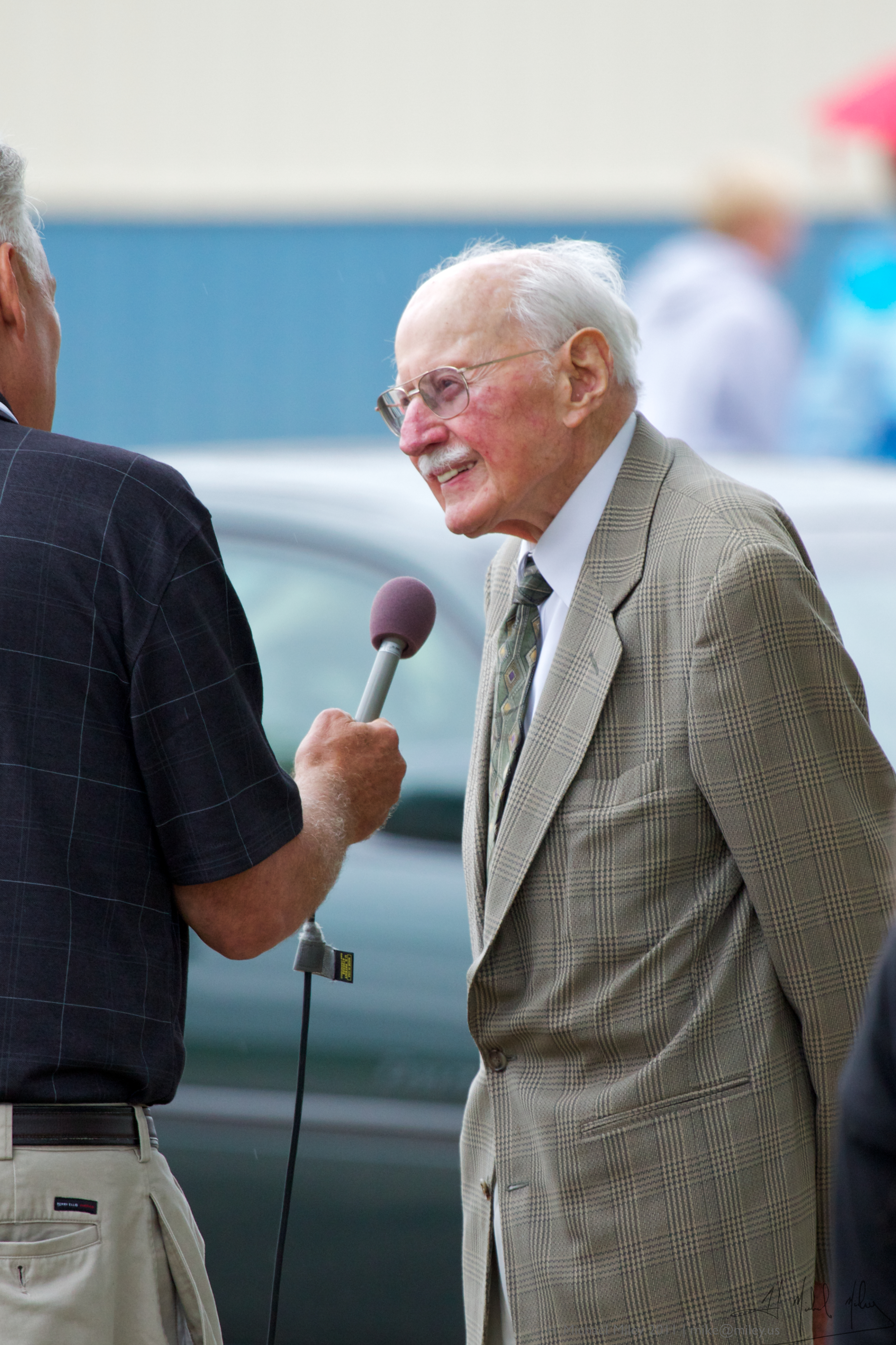 Bob Hoover at EAA AirVenture Oshkosh